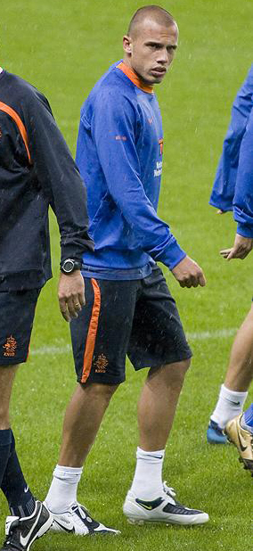 John Heitinga with Netherlands national football team